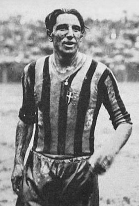 Turin (Italy), Campo Juventus ("Juventus Ground"), May 1, 1932. F.B.C. Juventus' footballer Giovanni Vecchina leave the pitch at the end of the home victory versus Bologna S.C. (3-2), Matchday 28 of the Italian League 1931–32 Serie A.